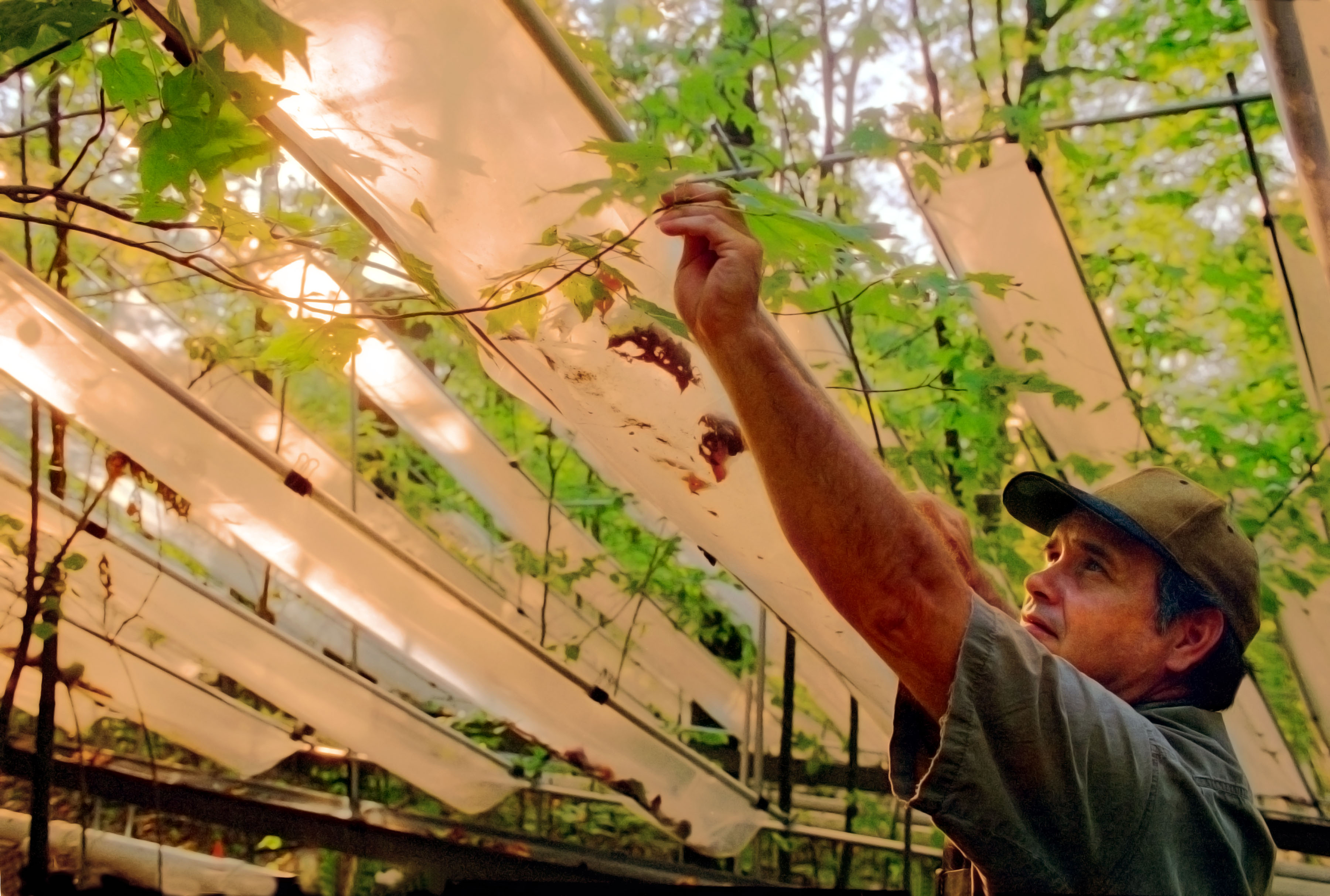 95-414 DOE photo by Lynn Freeny Throughfall Displacement Experiment at Oak Ridge National Lab. Oak Ridge Tennessee 9-5-1995